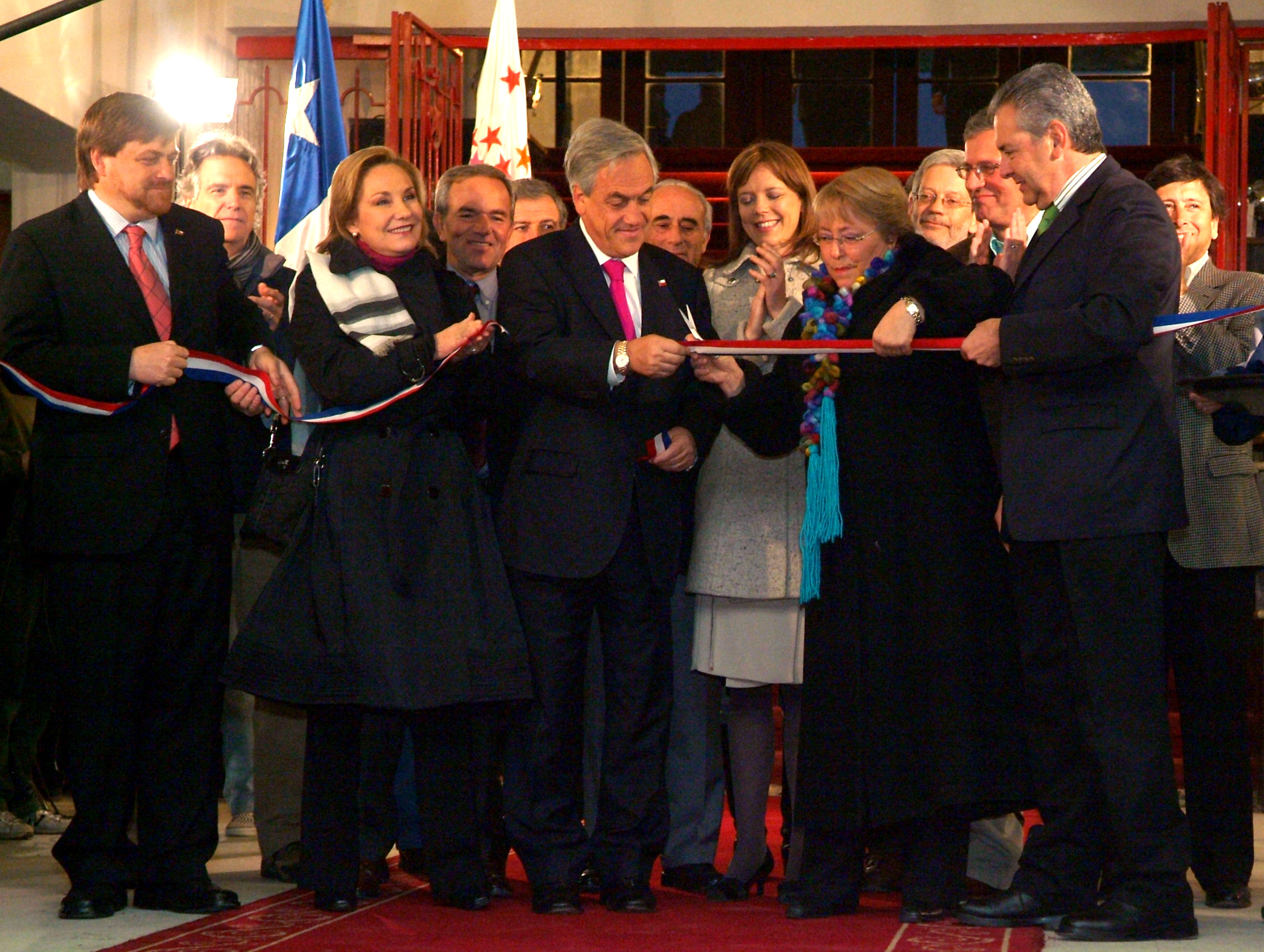 Sebastián Piñera and Michelle Bachelet in the re-inauguration of the National Stadium of Chile.